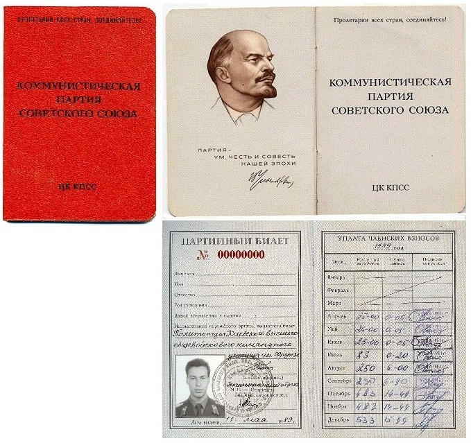 The Party ticket, a member of the Communist Party of the Soviet Union. 1989 (personal data: surname, name and # deleted)